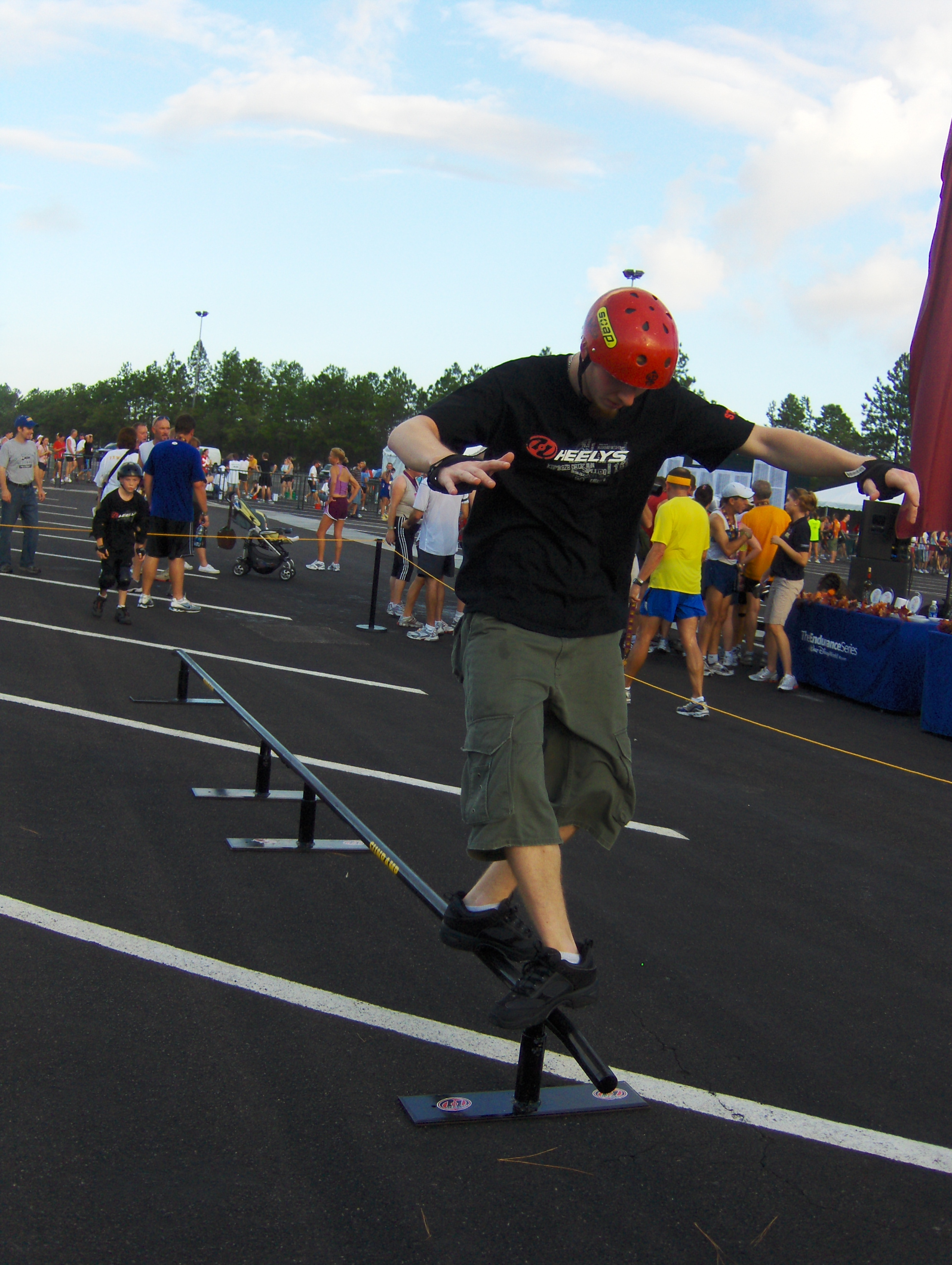 A man with Heelys or Soap shoes grinding on a rail.